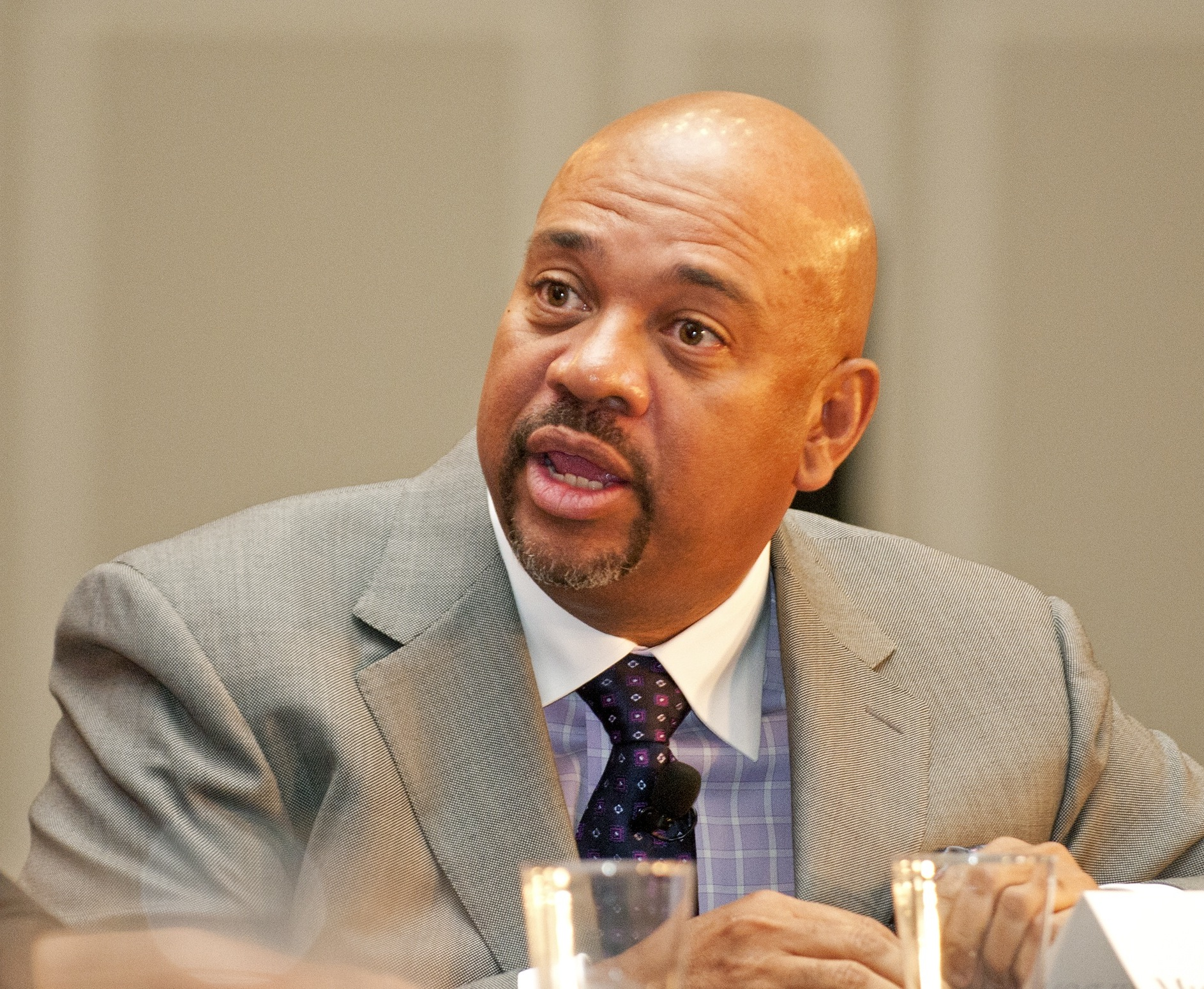 Michael Wilbon of ABC/ESPN was one of the members of the Shirley Povich Symposium panel. Charlie DeBoyace/The Diamondback